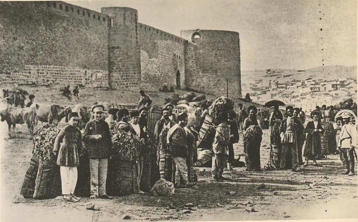 Old Baku. Old Baku